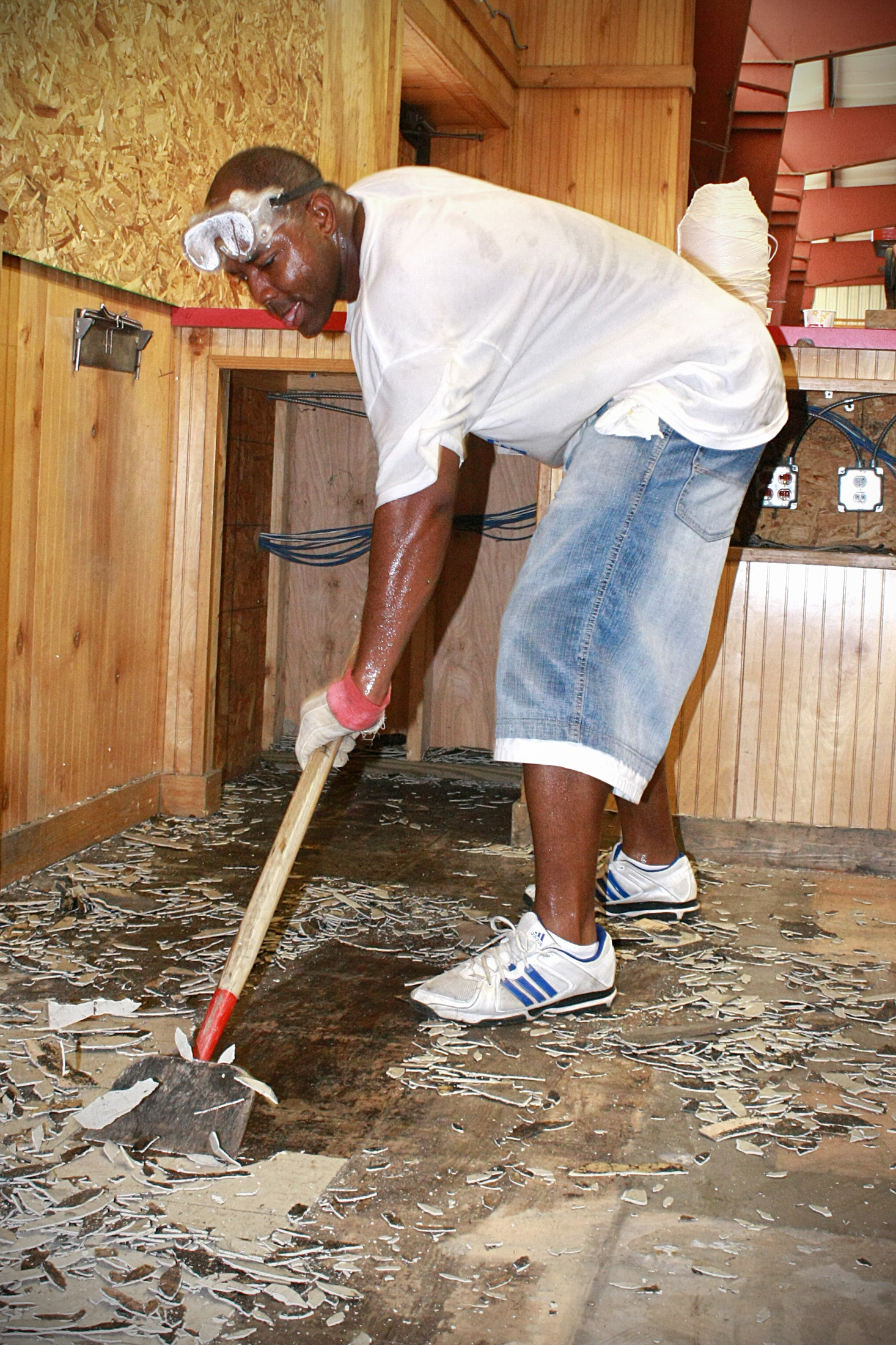 CHARLESTON, S.C. (Aug. 29, 2009) Chief Ship's Serviceman (Sel.) Tyrone Nicholas, assigned to Naval Weapons Station Charleston, scrapes vinyl floor tiling from the cement floor of the new Habitat for Humanity ReStore. The warehouse will hold donated goods that are sold to pay for program expenses and home building. Navy senior enlisted personnel stationed at Naval Weapons Station Charleston are helping to refurbish the ReStore warehouse. (U.S. Navy photo by Machinist's Mate 3rd Class Juan Pinalez/Released)